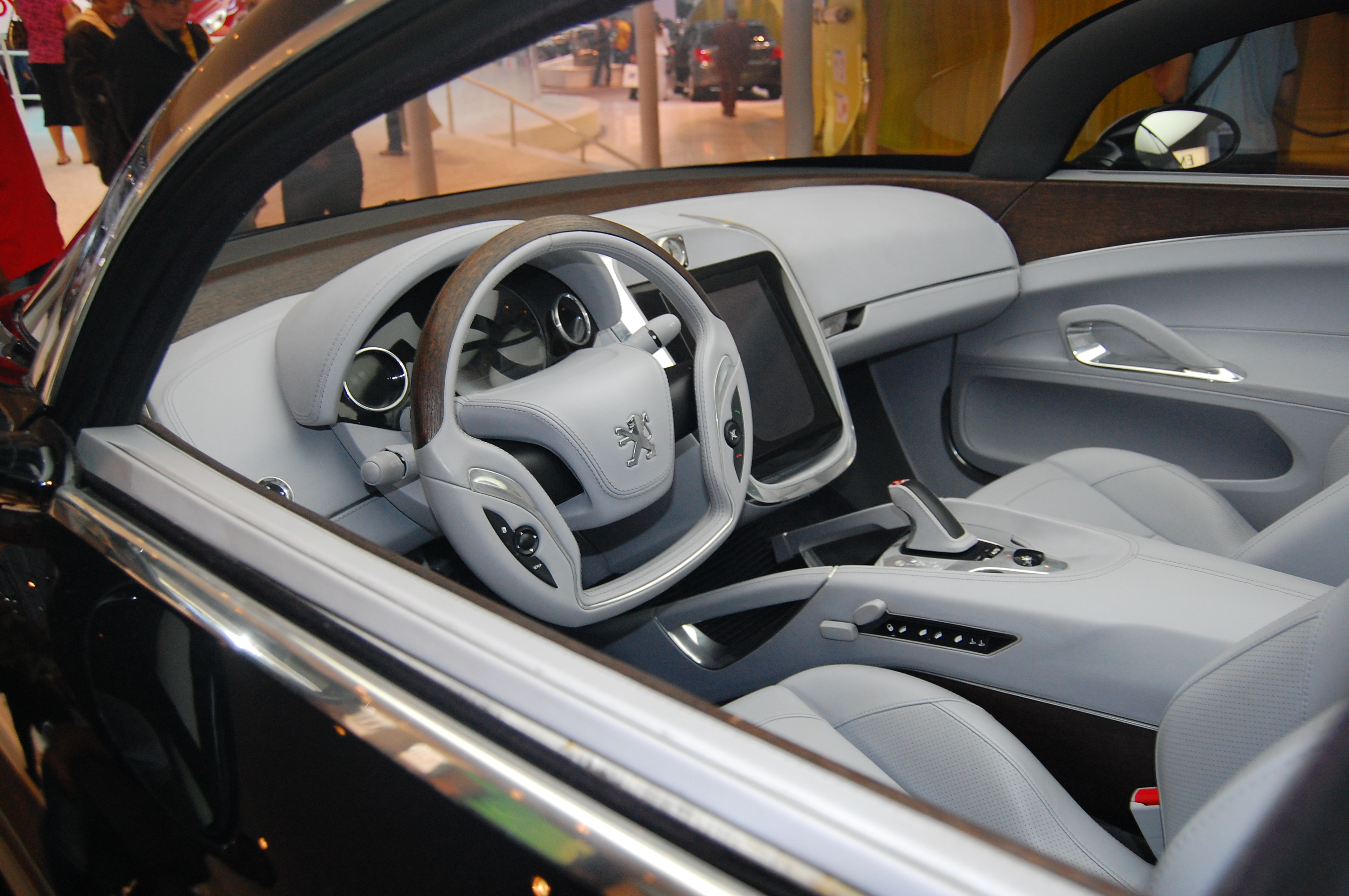 Cockpit of Peugeot 908 RC @ IAA 2007